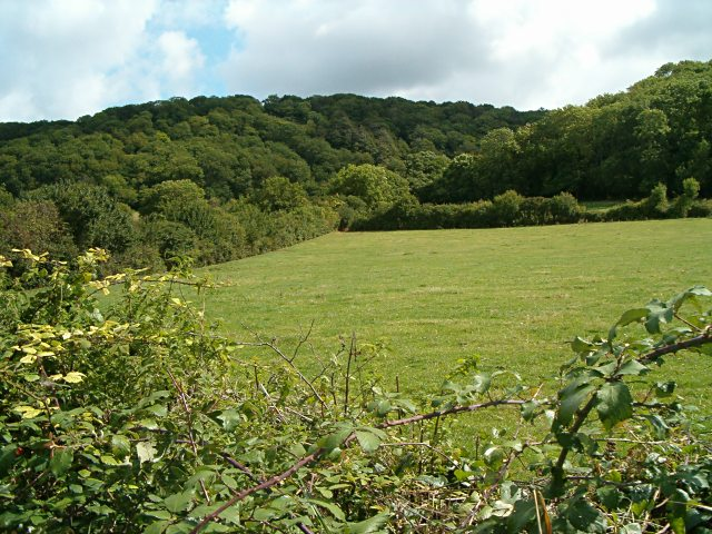 Aller Wood, Somerset, view from the A372 near Beer Corner.